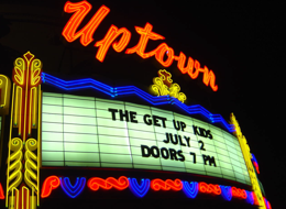 Photo of the Uptown Theater (Kansas City, MO) marquee on the date of the final show by The Get Up Kids